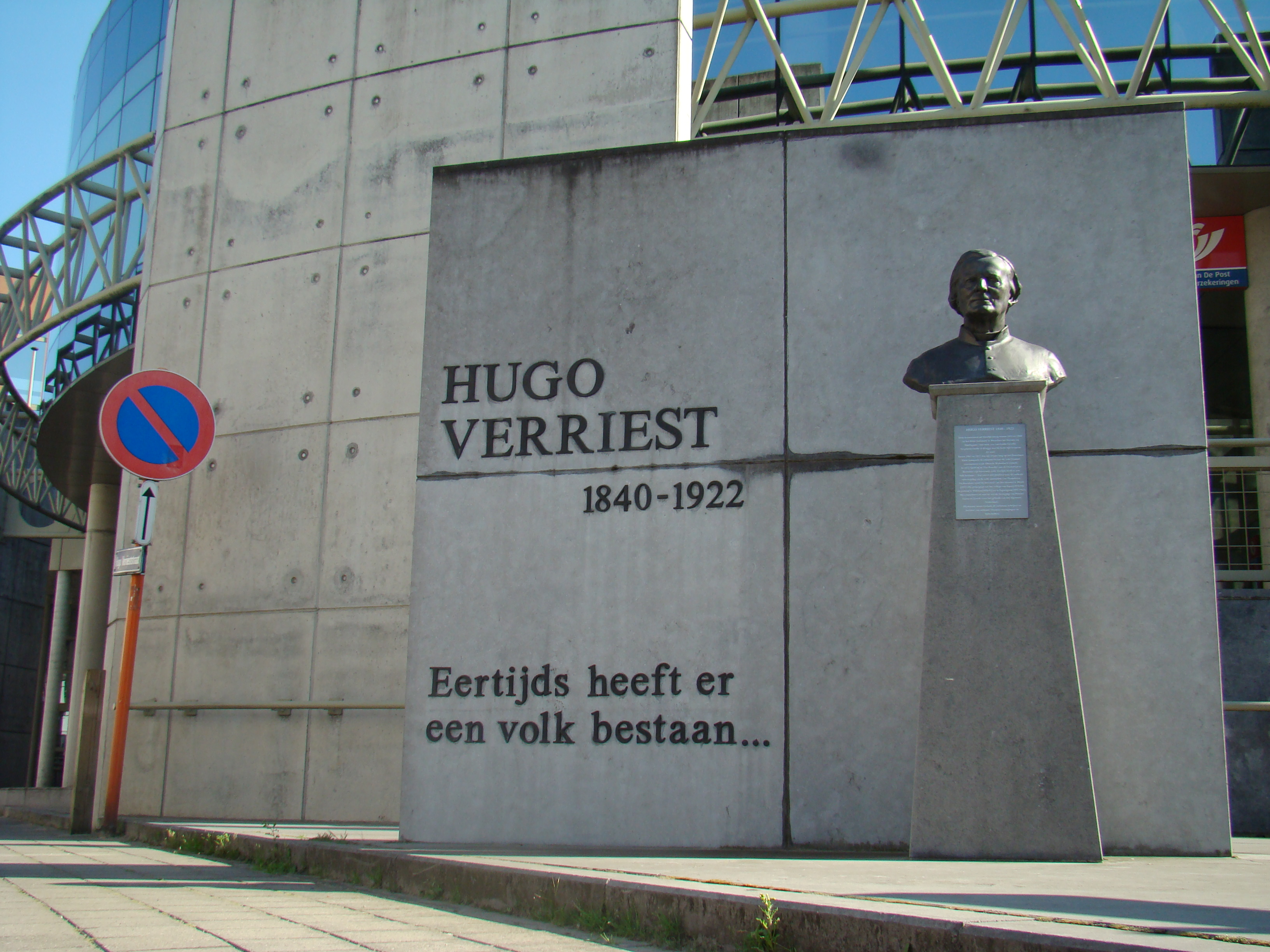 Roeselare (West Flanders, Belgium)